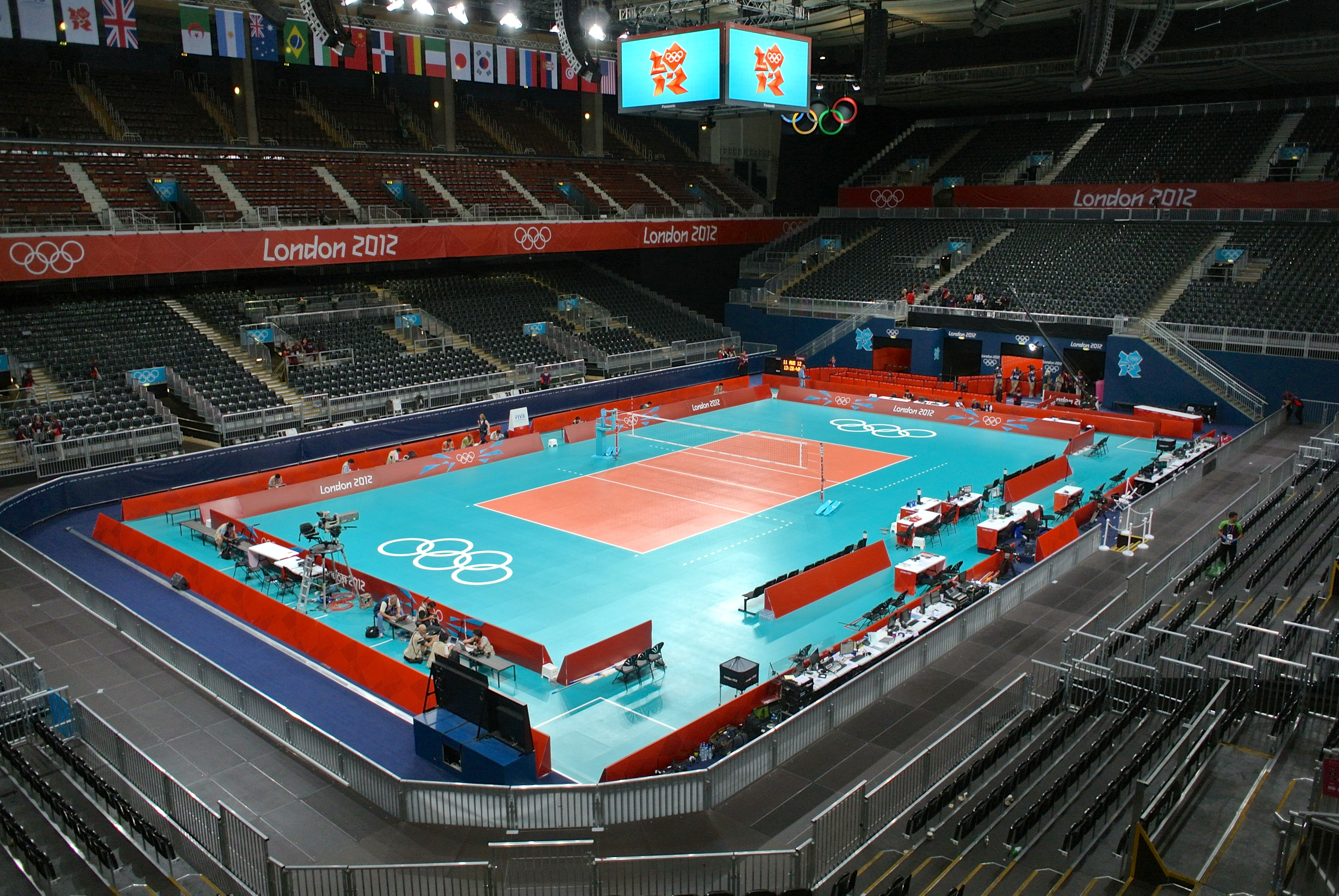 Inside the arena.